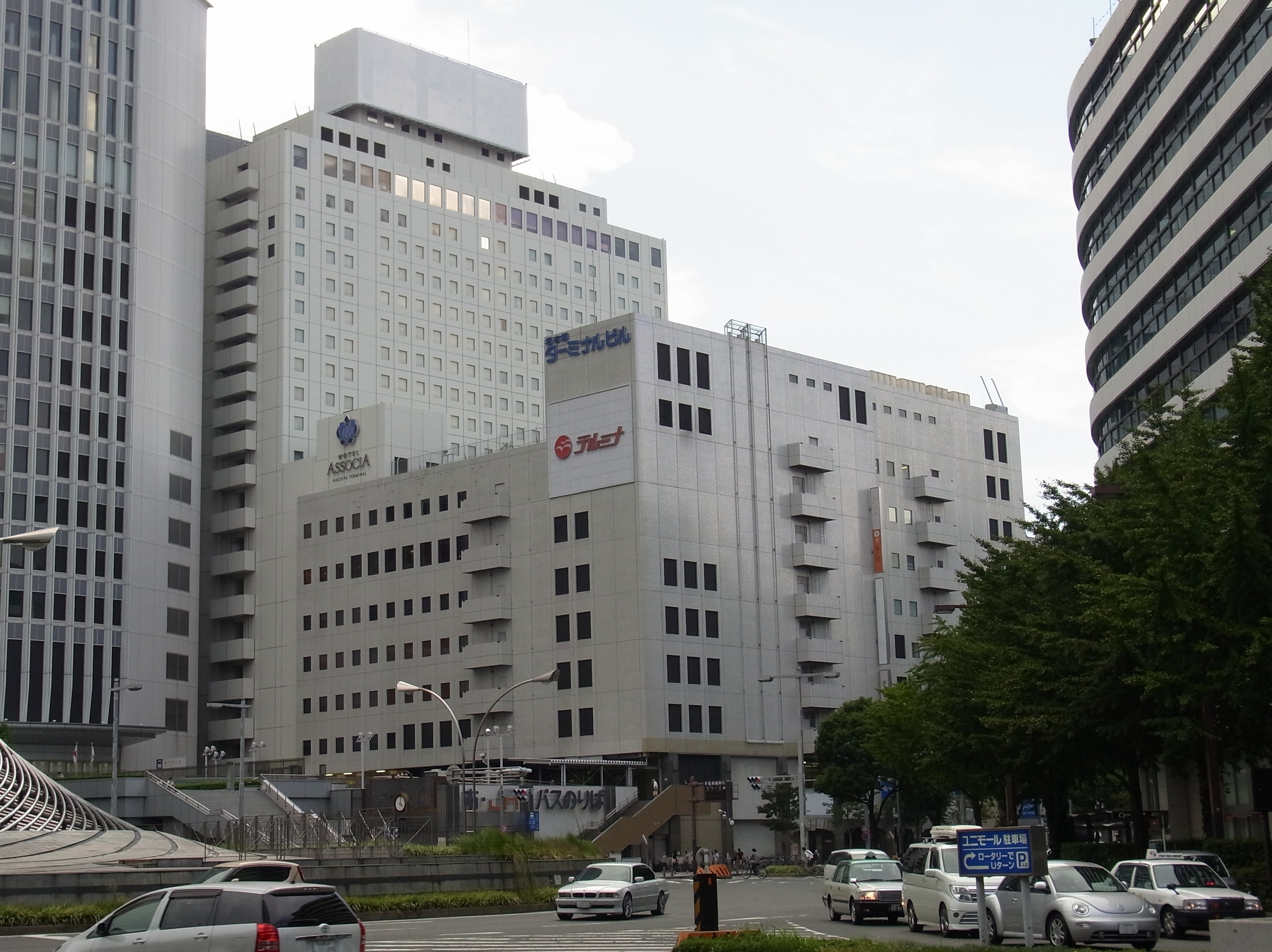 Nagoya Terminal Building in Nagoya City, Aichi Prefecture, Japan